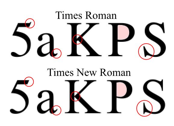 Some examples of differences between Times Roman and Times New Roman.